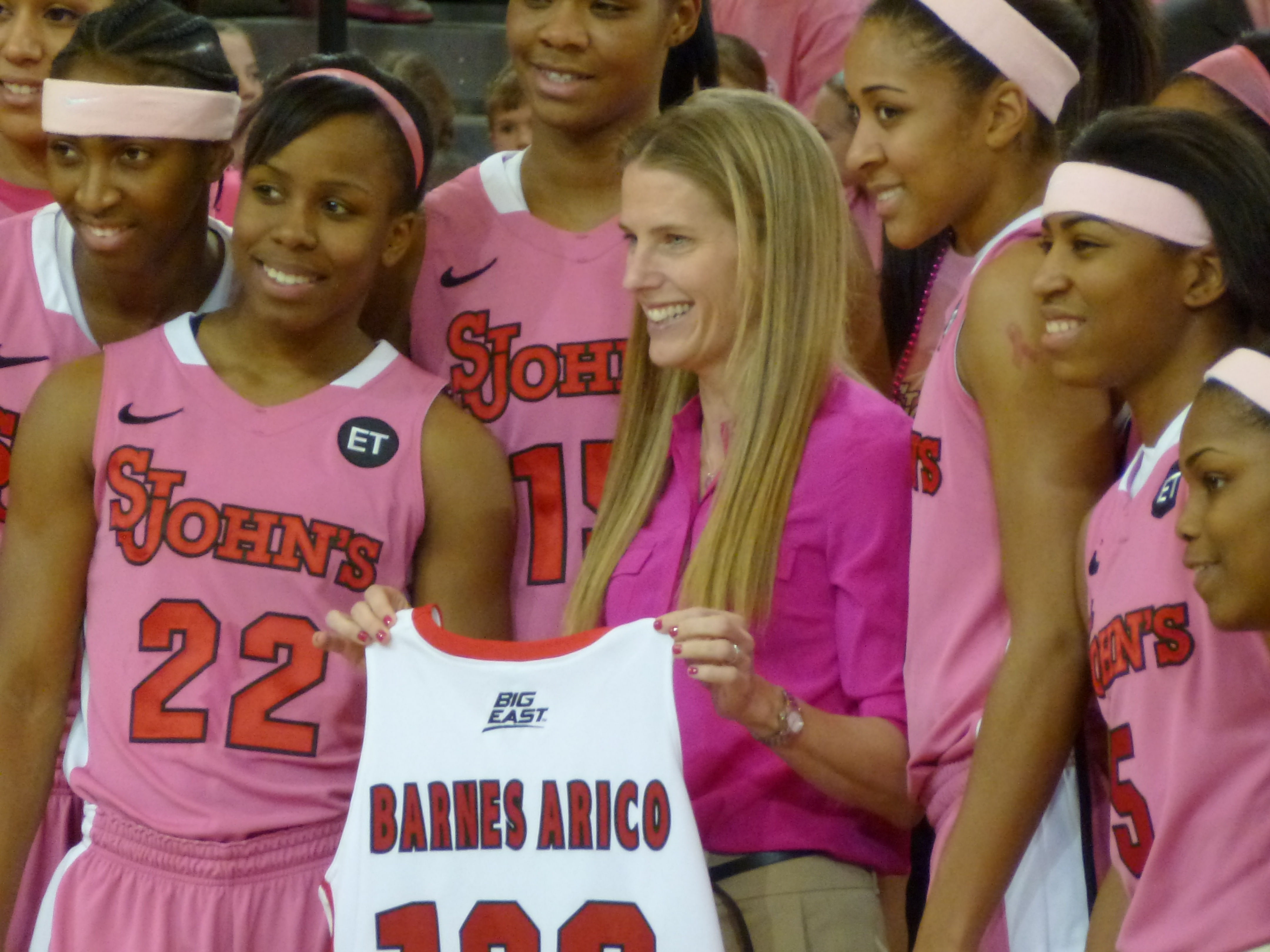 Kim Barnes Arico, coach of the St. John;s women's basketball team, being presented with a commemorative jersey for her 169th win, setting a new school record for wins. The presentation occurred prior to the St. John's-West Virginia women's basketball game on 21 February 2012, held at Carnesecca Arena.